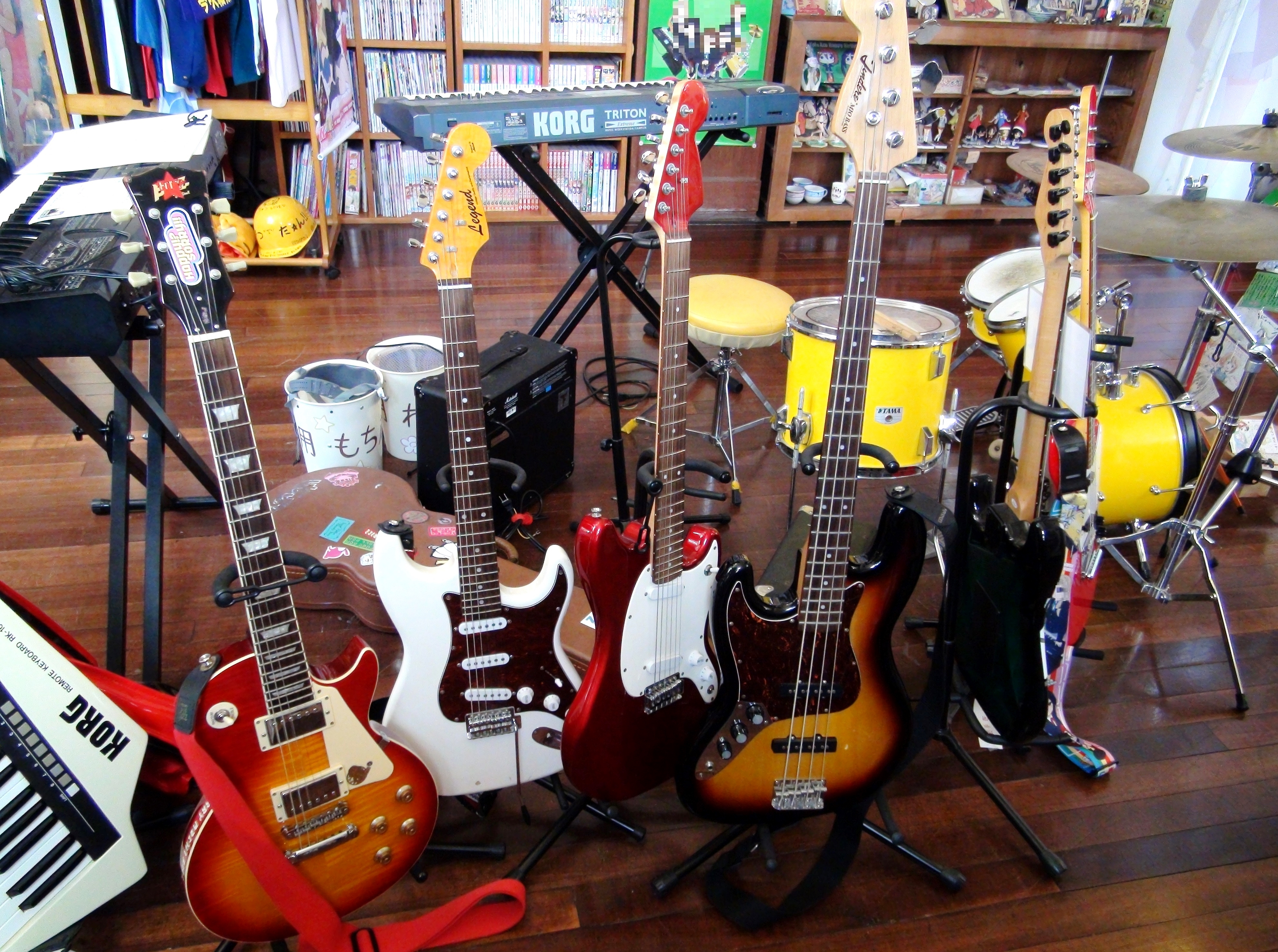 The instruments which K-On! anime fans donated to Toyosato Elementary School. (The part of the copyrighted illustration handled a mosaic.)